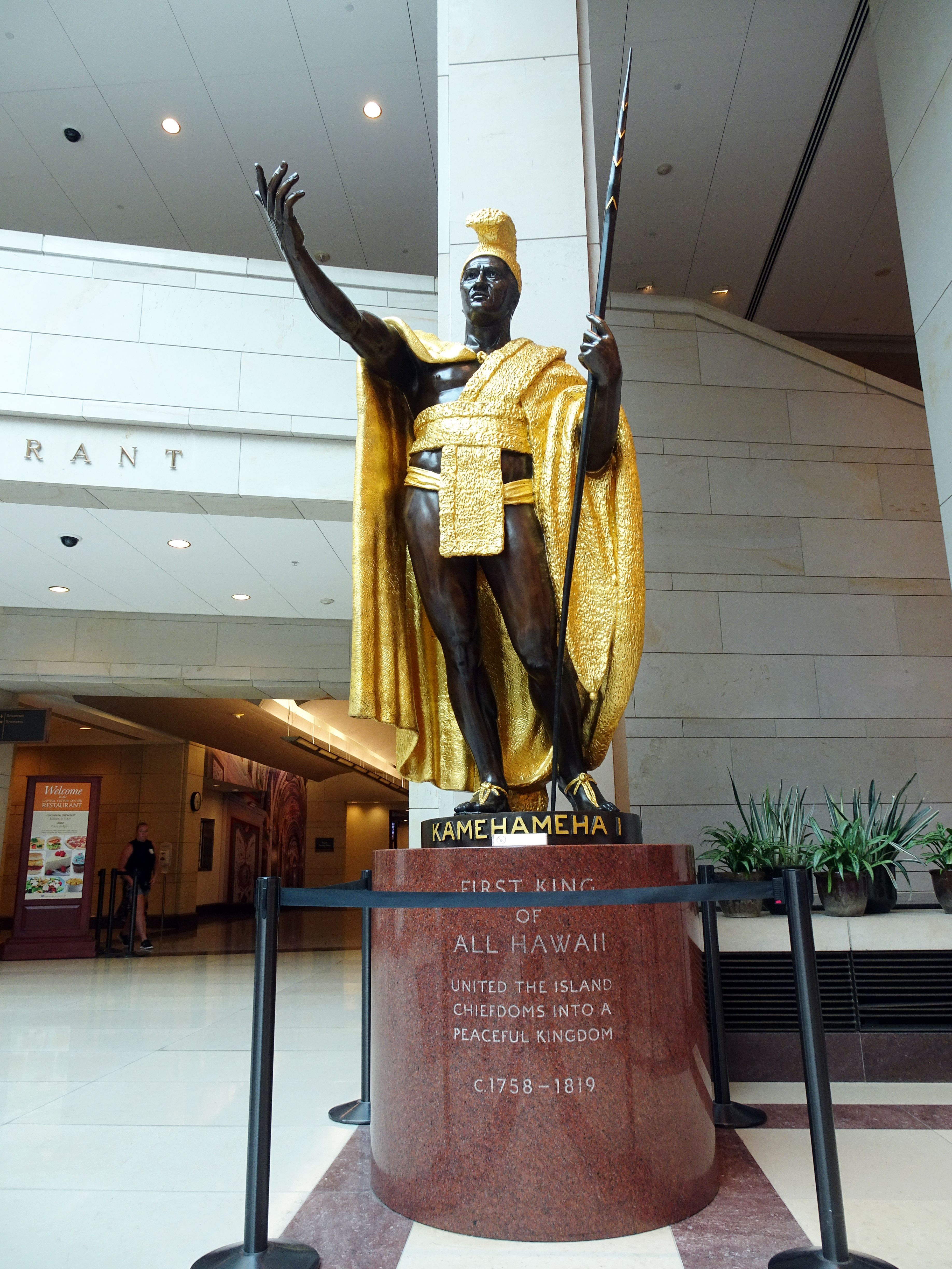 Statue of Kamehameha I, first king of Hawaii, in the hall of the United States Capitol